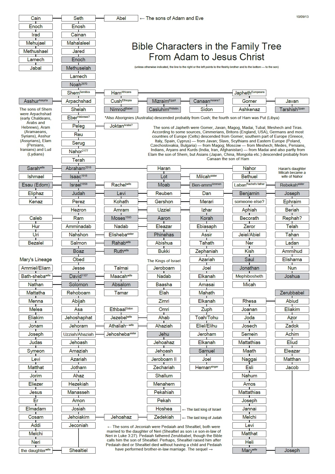 Bible Genealogy from the sons of Adam and Eve to Jesus Christ